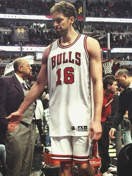 Paul Gasol high five with Stryde at the end of the Chicago Bulls game